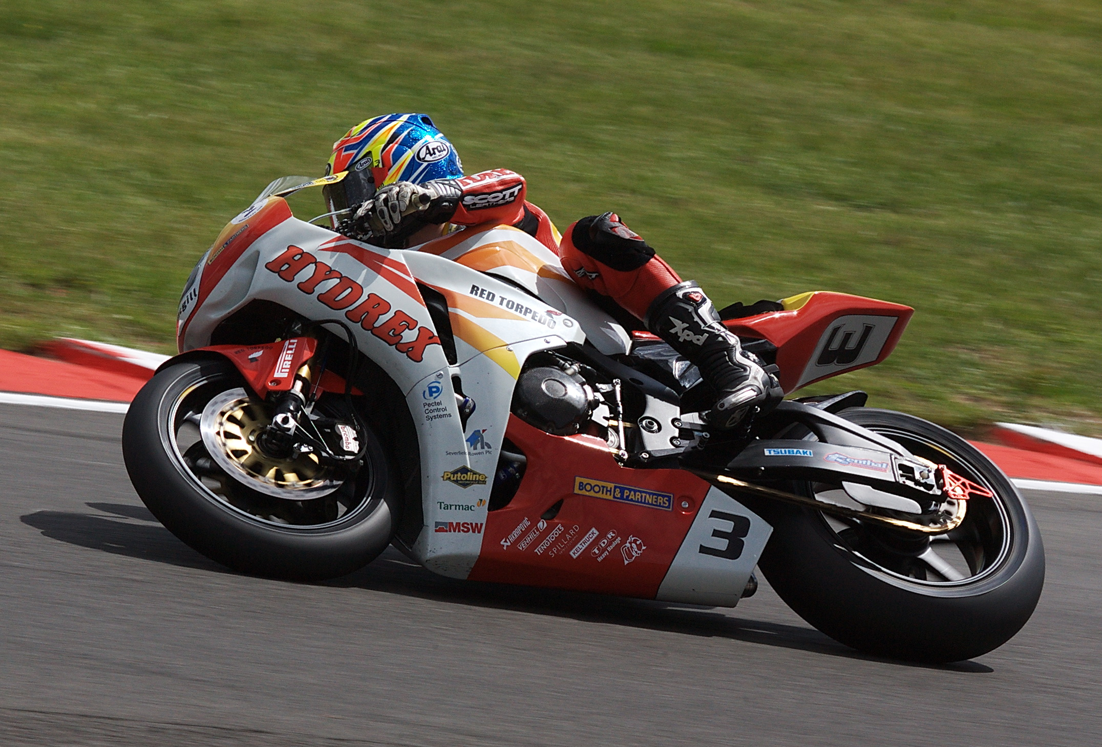 Stuart Easton ~ Hydrex Honda (British Superbikes)